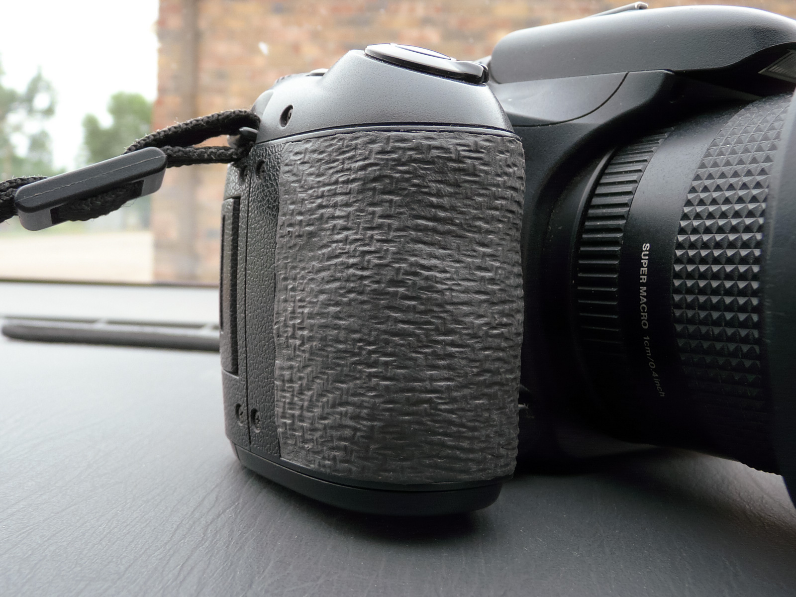 Sugru used to repair Fuji S100FS camera after the original rubber handgrip failed.